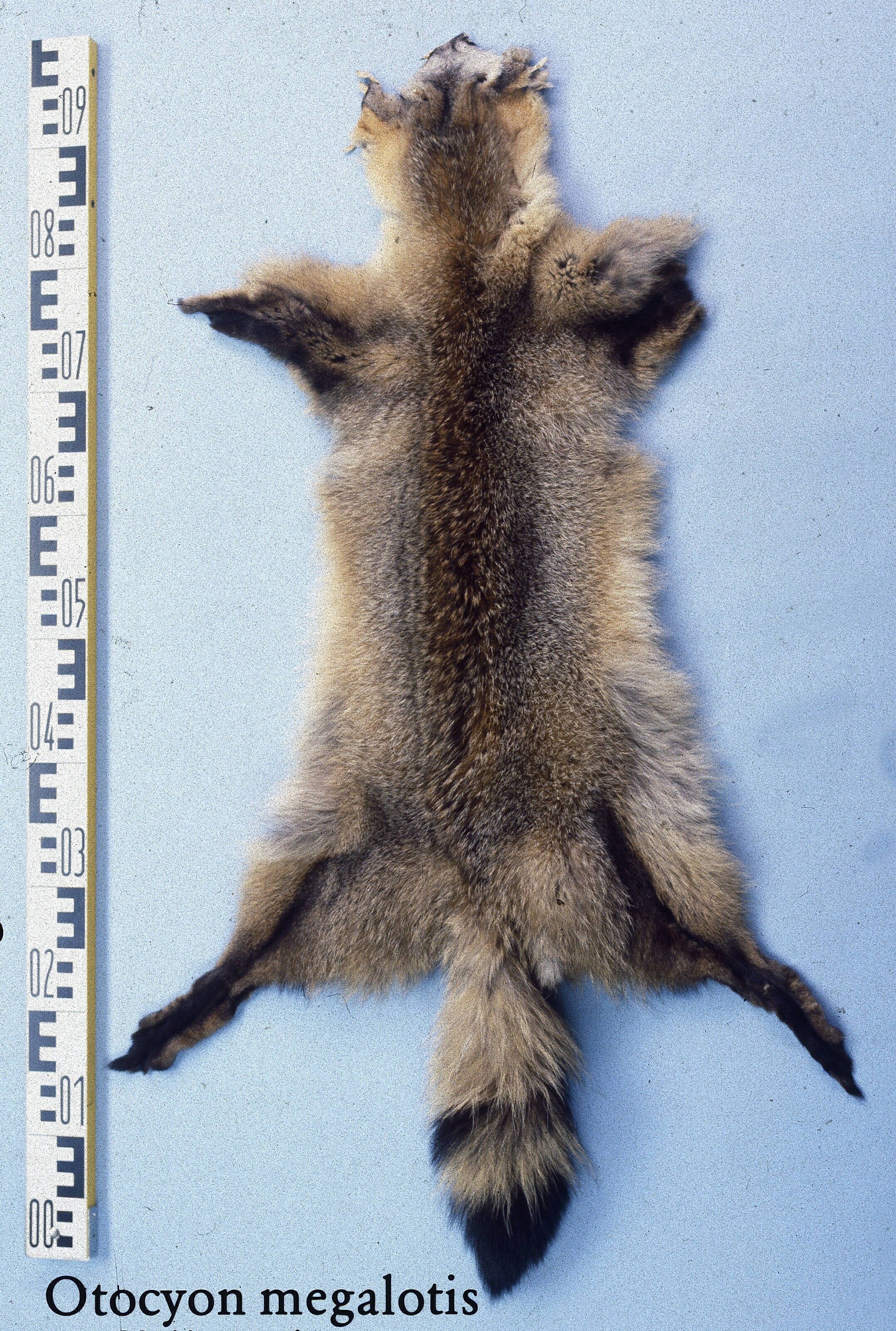 Big eared fox skin (Otocyon megalotis). Fur skin collection, Bundes-Pelzfachschule, Frankfurt/Main, Germany